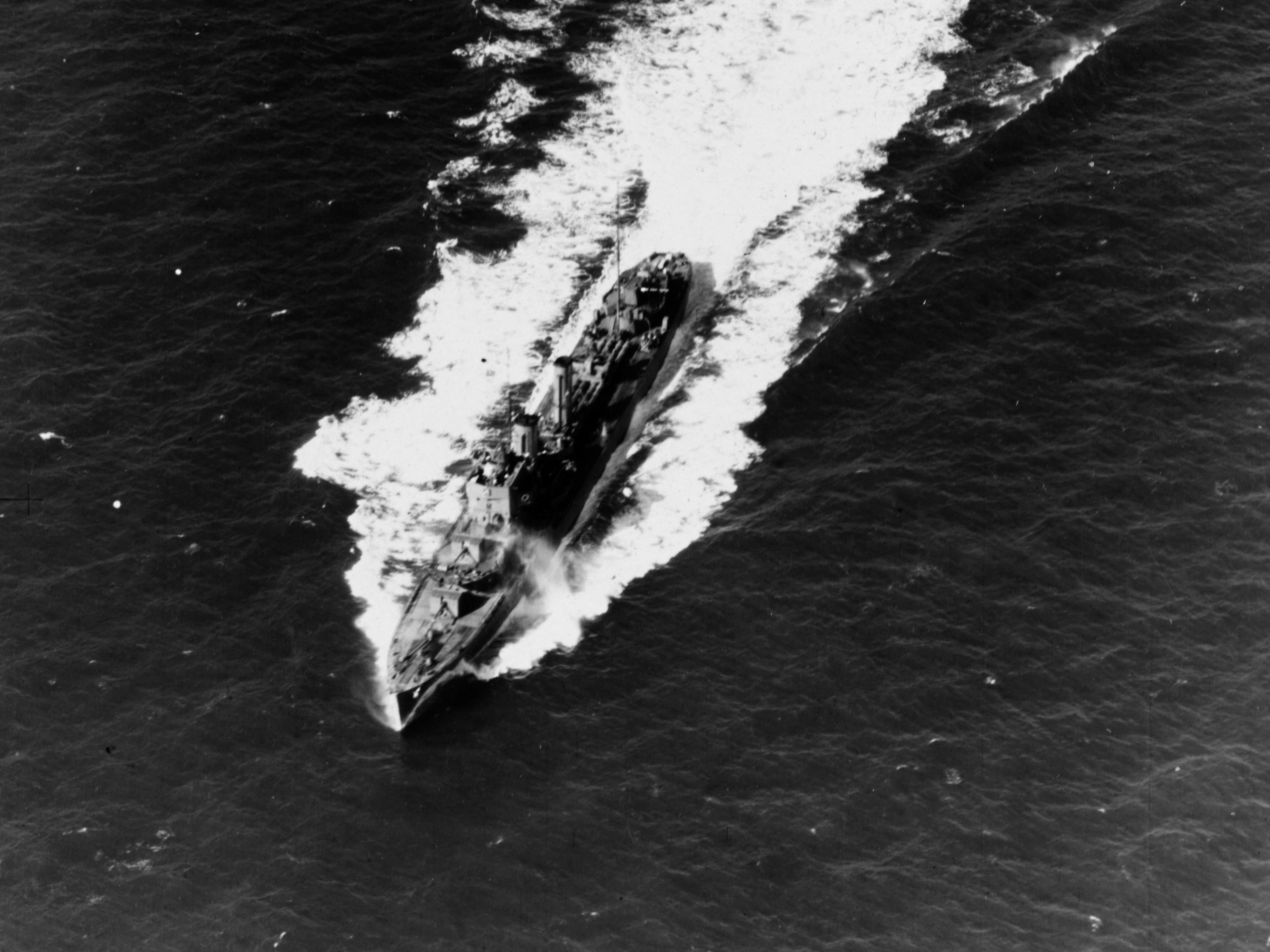 The Royal Navy destroyer HMS Boreas (H77) underway in the English Channel on 28 September 1939, 20 kilometers northwest of Calais, France.